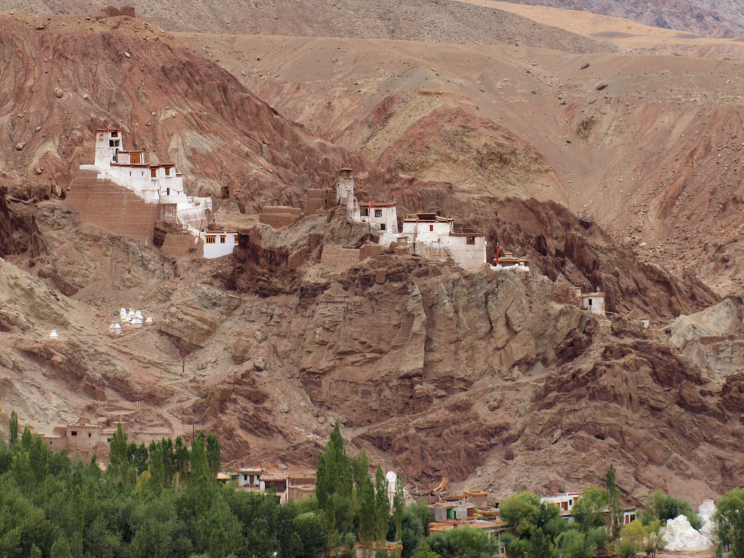 View of Basgo gompa